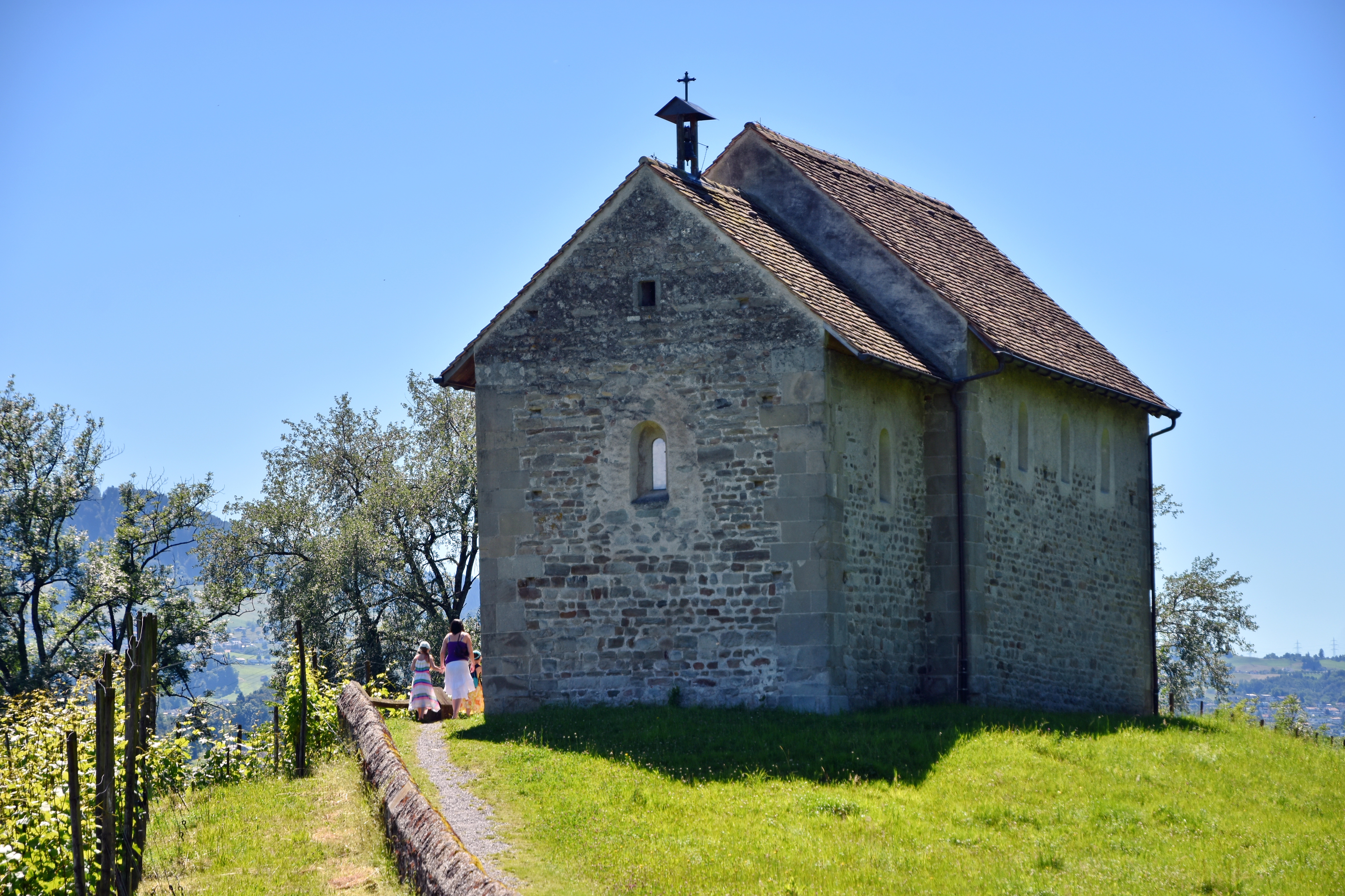 Ufenau island on Zürichsee in Switzerland: St. Martinskapelle (St. Martin's chapel), first mentioned in the 7./8th century A.D.